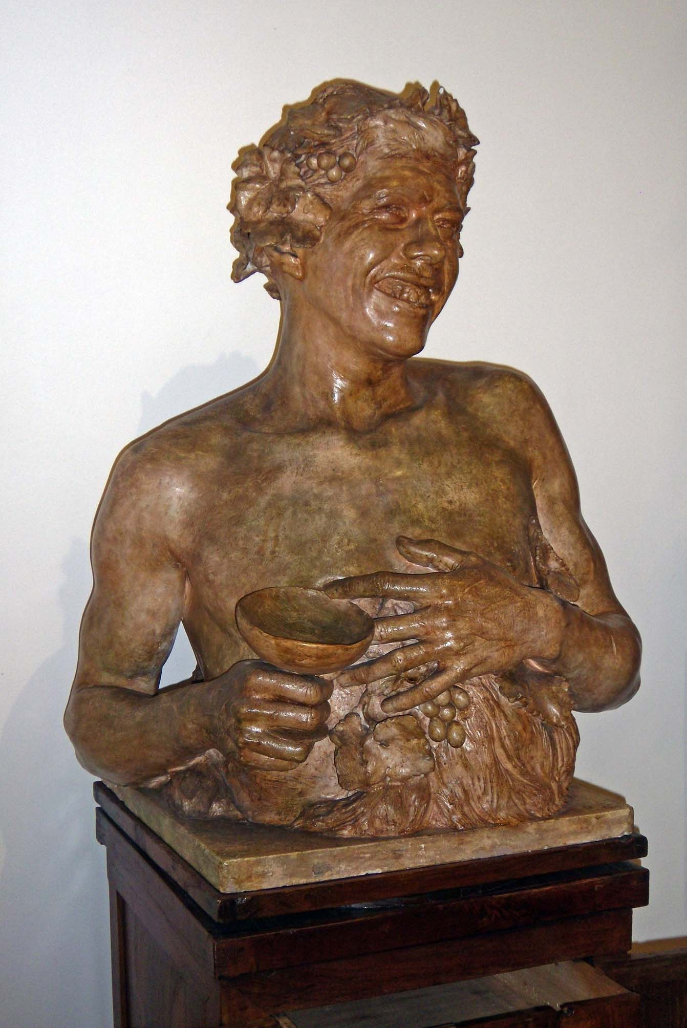 Baco (1916) - Teixeira Lopes House-Museum - Vila Nova de Gaia - Portugal